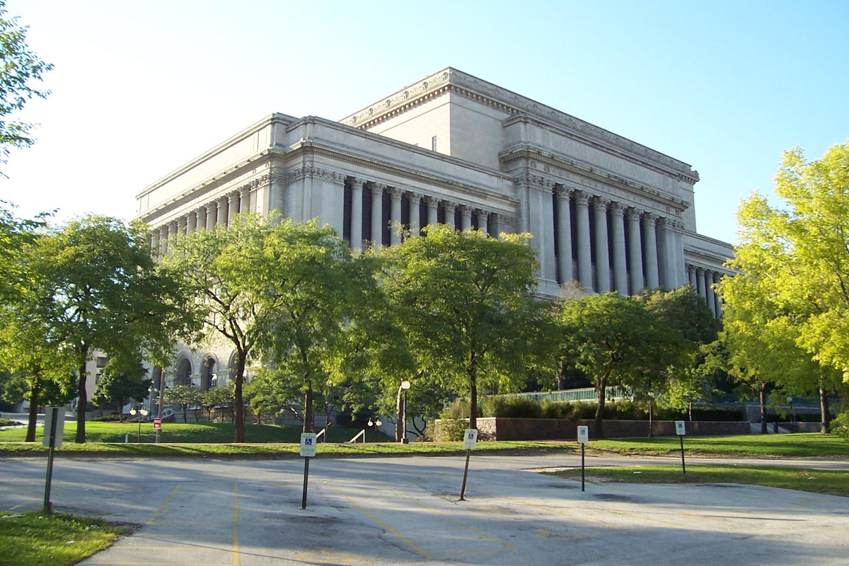 Copyright © 2005 Sulfur Milwaukee County Courthouse is a historic high-rise municipal building located in downtown Milwaukee, Wisconsin.